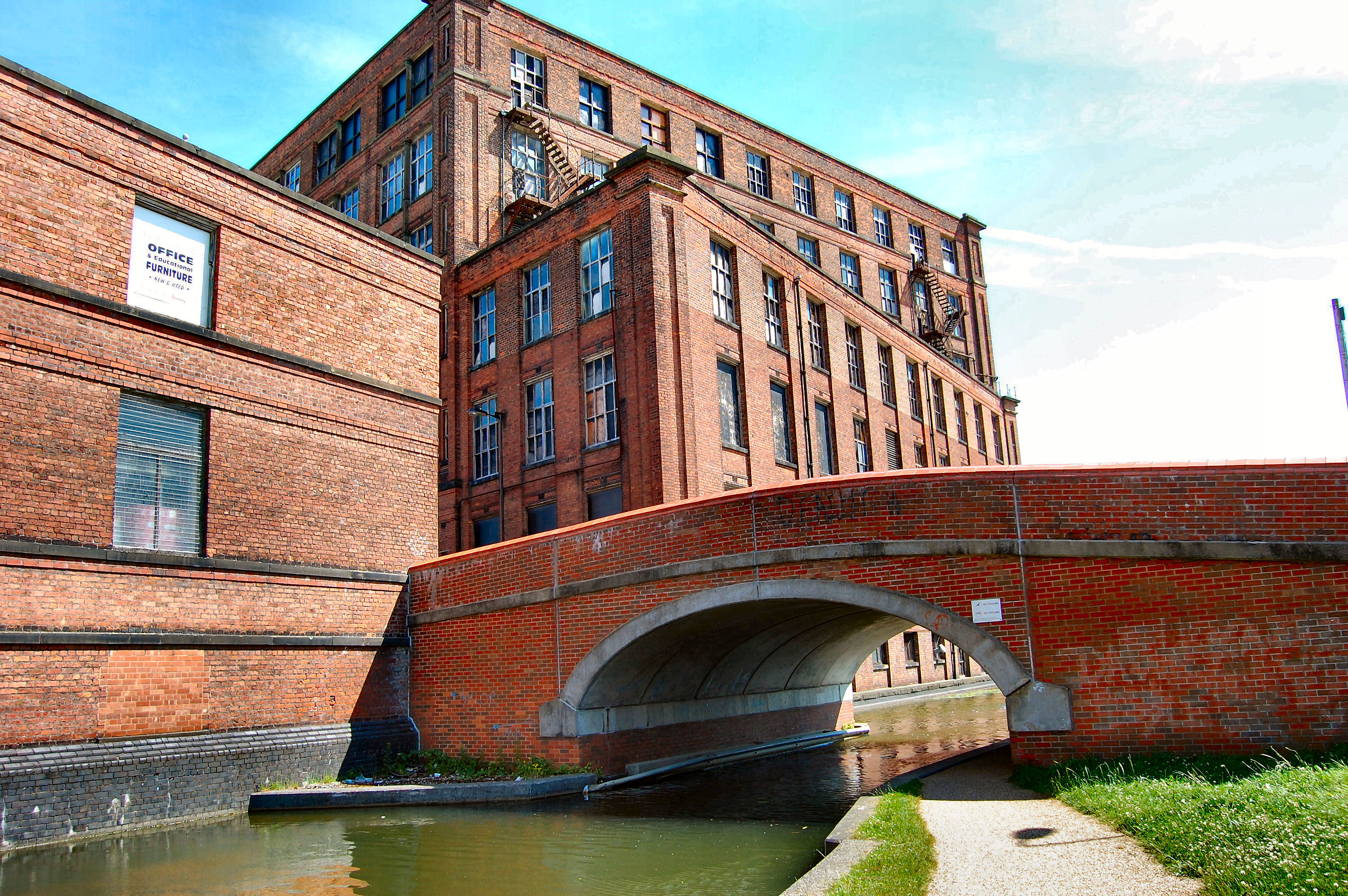 One of the many mills that you find along our canals in urban areas.Mostly to do with the textile industry. Ron.